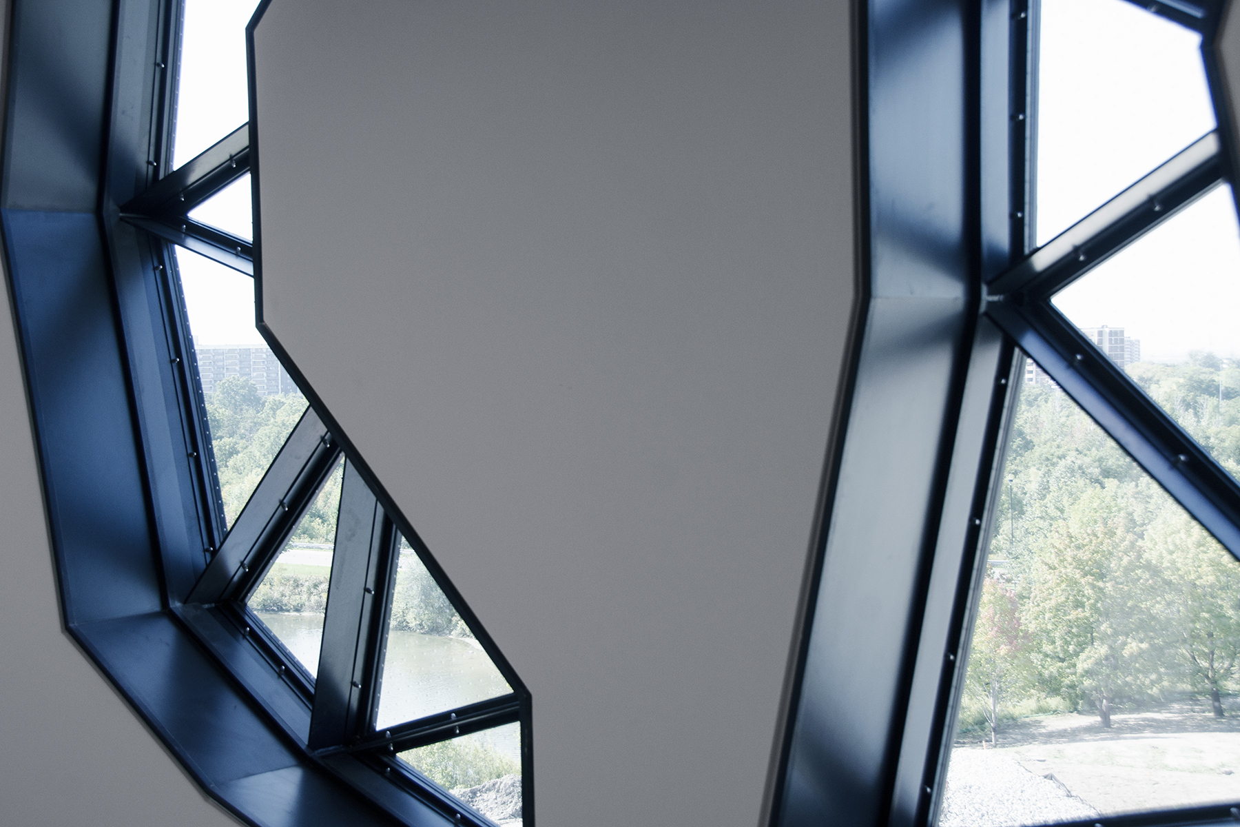 A view from one of the student design studio spaces.